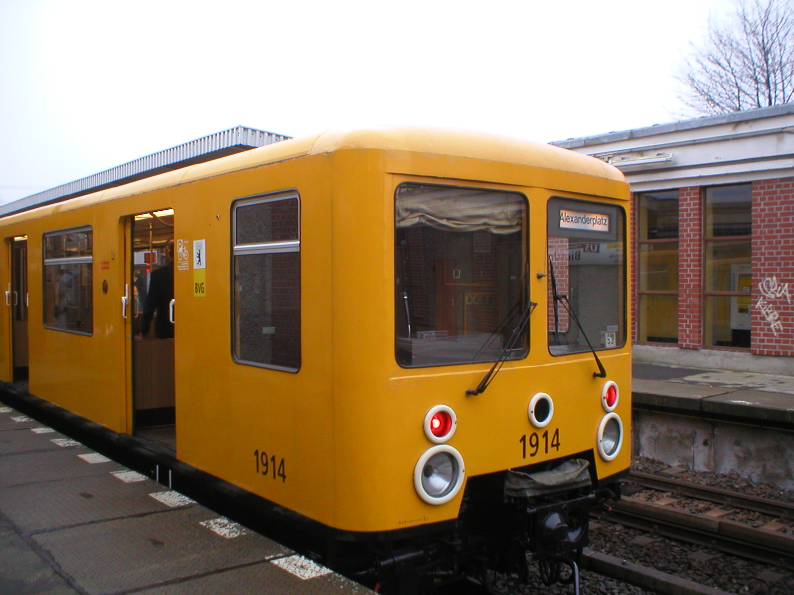 The Berlin U-Bahn train type EIII at Biesdorf-Süd station